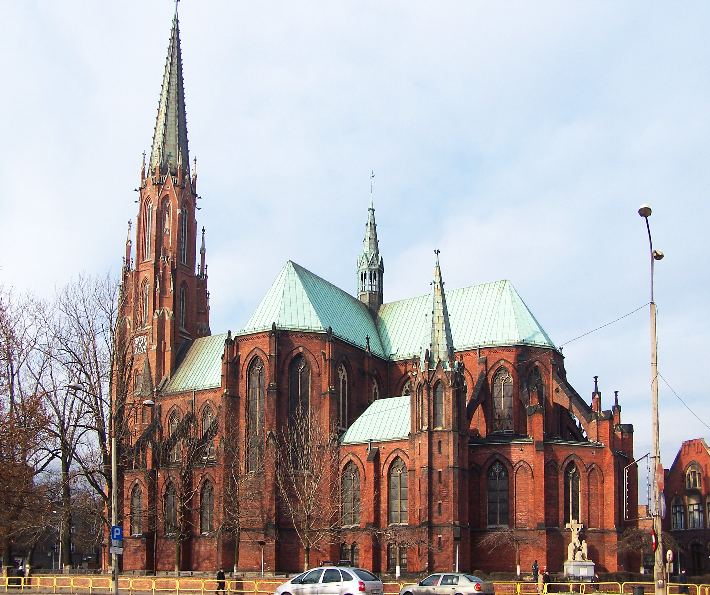 Gothic revival Holy Trinity church in Bytom from 1886.